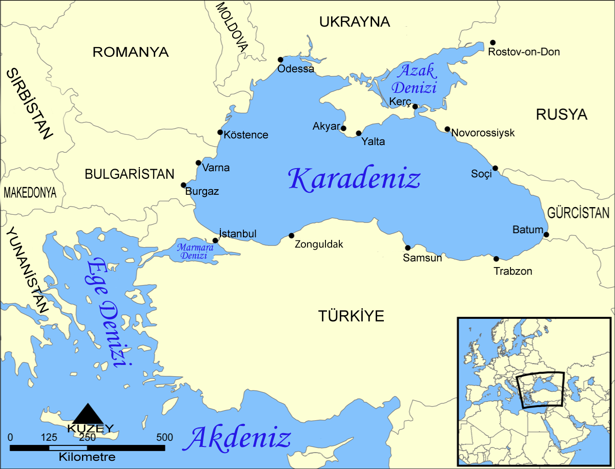 A map showing the location of the Black Sea and some of the large or prominent ports around it. The Sea of Azov and Sea of Maramara are also labelled.